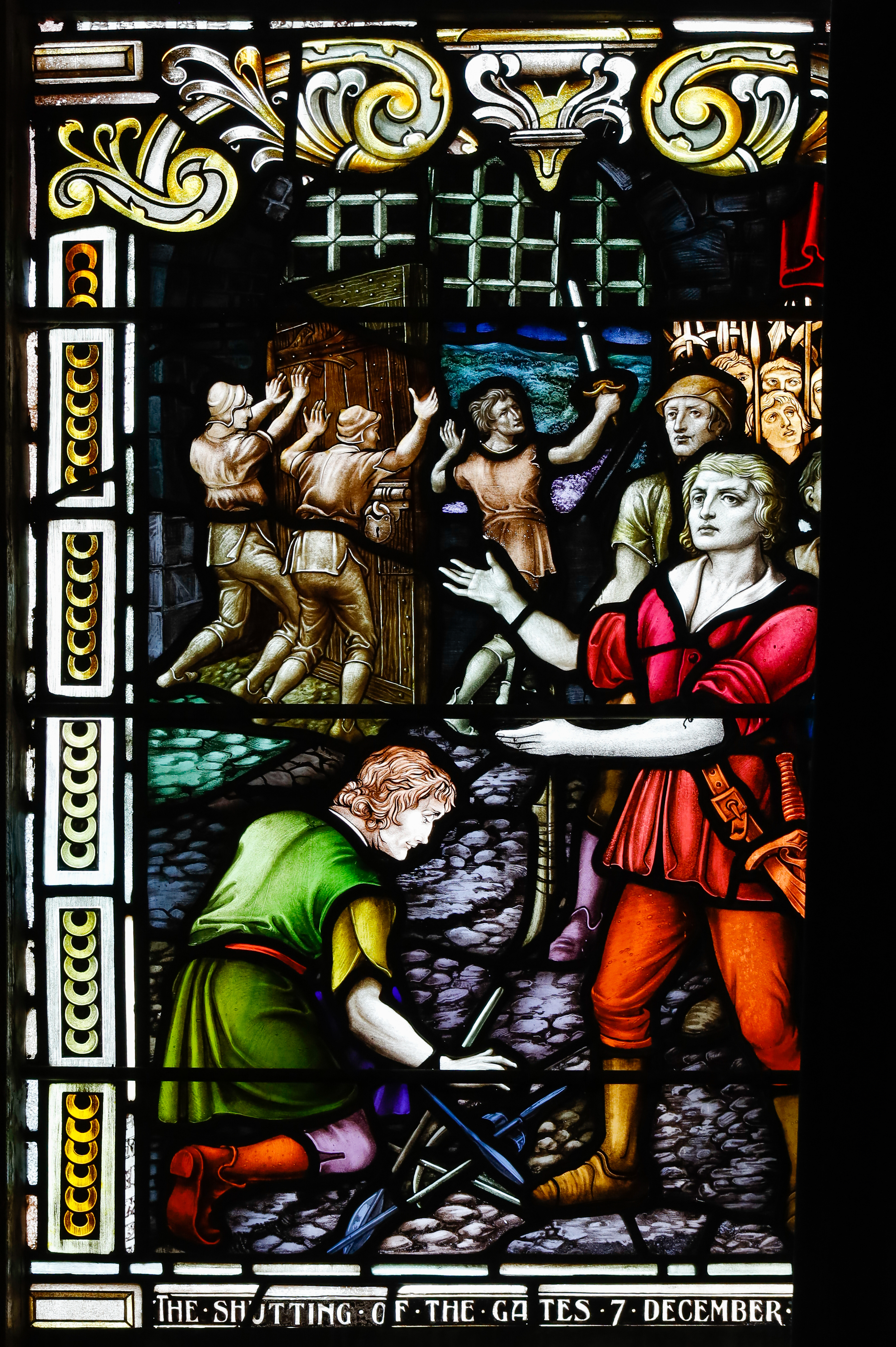 Right-most main panel of the stained glass in the bay window of the Main Hall, titled “The shutting of the gates 7 December 1688 A.D.”